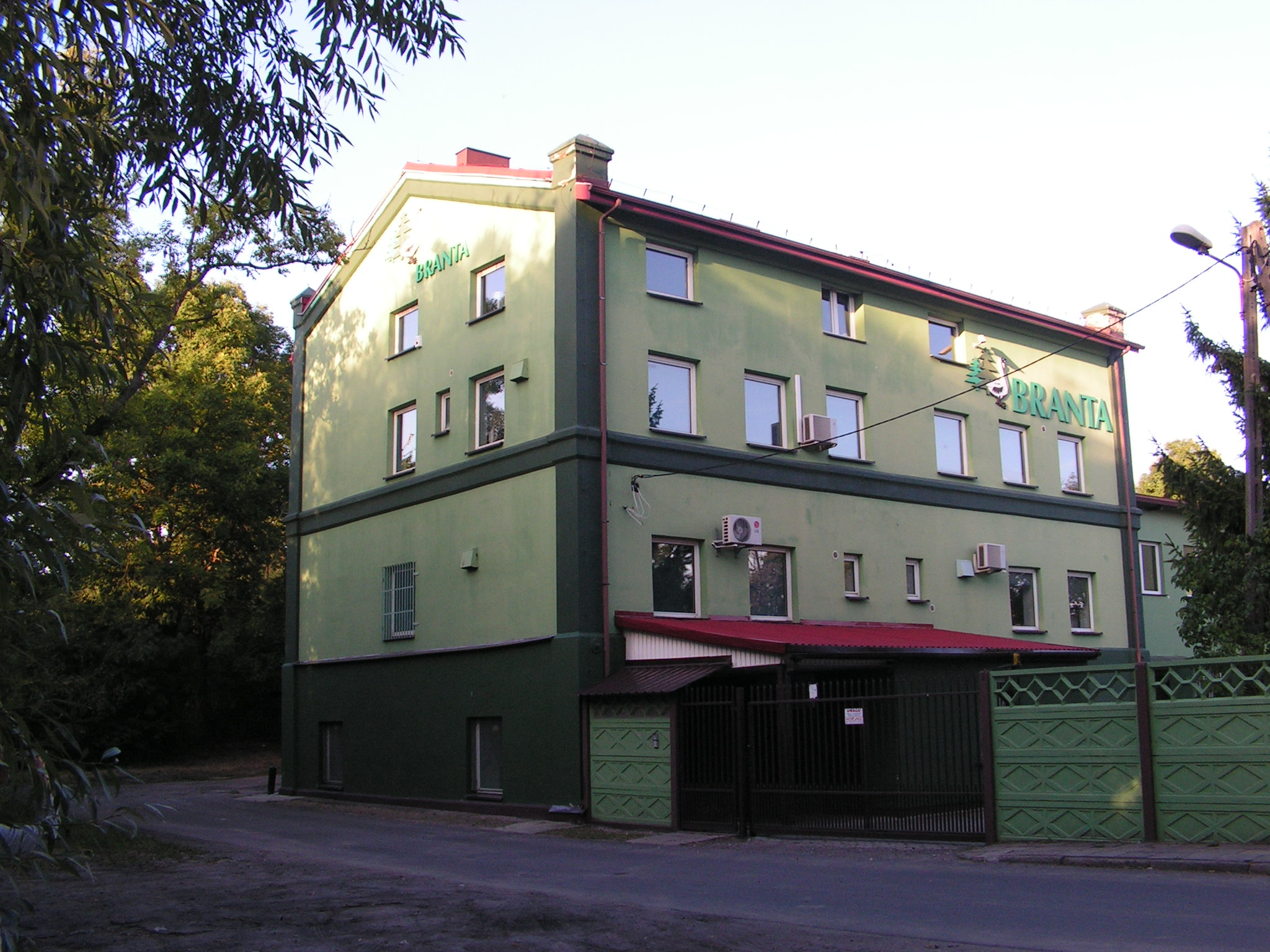 Former water mill at 22 Słodowska Street in Włocławek.